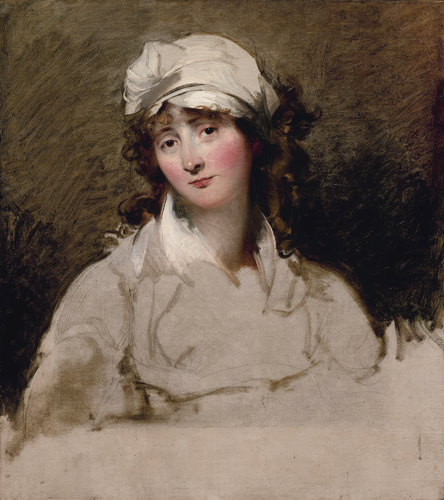 Elizabeth Simpson Inchbald oil and black chalk on canvas 71.1 x 63.5 cm. circa 1796